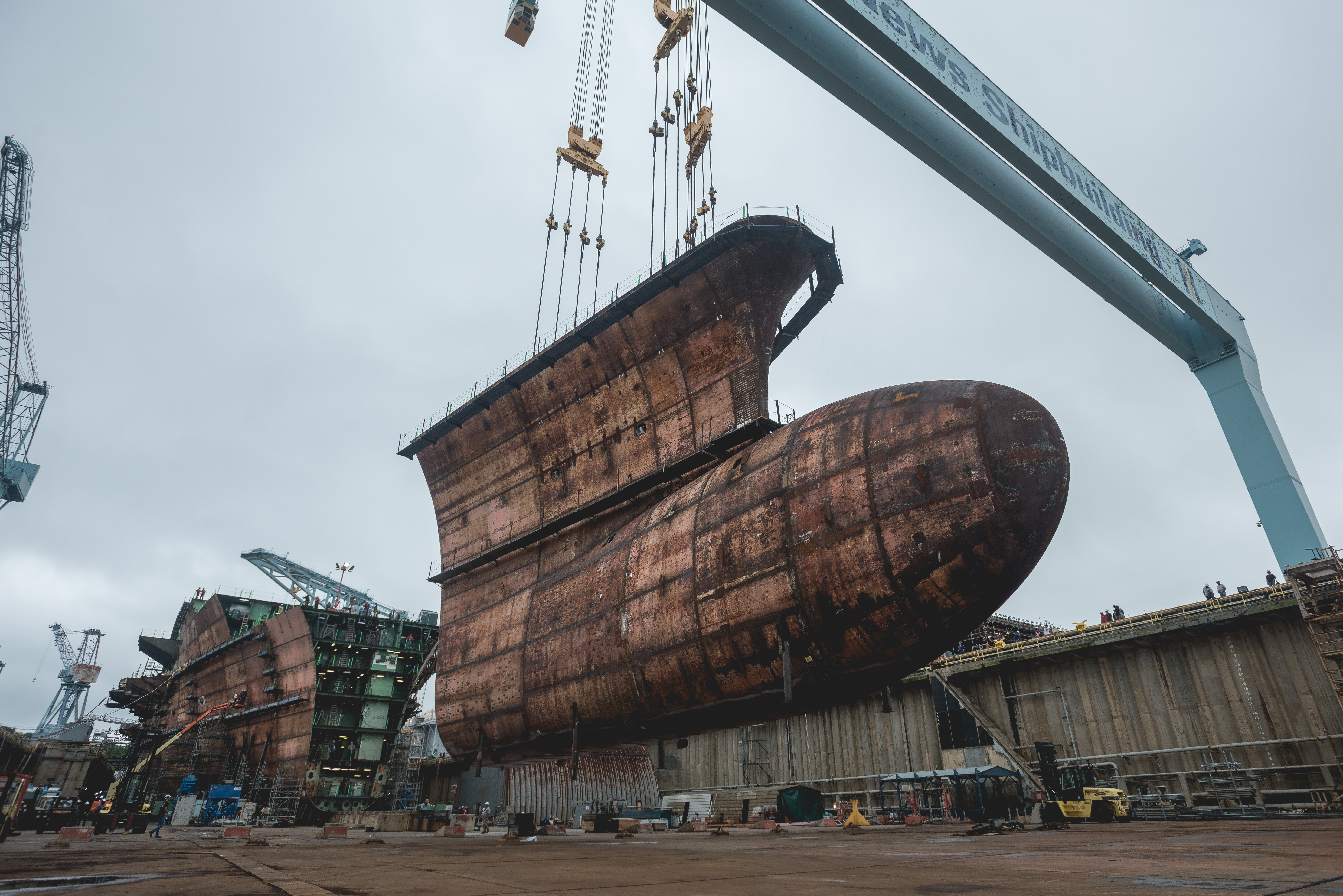 NEWPORT NEWS, Va. (Sept. 28, 2018) The final piece of the underwater hull of the future aircraft carrier USS John F. Kennedy (CVN 79) is lowered into place at Huntington Ingalls Industries Newport News Shipbuilding. John F. Kennedy is the second Gerald R. Ford-class aircraft carrier and the second aircraft carrier to be named after the 35th president. The 1,096-foot hull is longer than three football fields and more than 3,000 shipbuilders and 2,000 suppliers from across the country are supporting construction of the ship. The christening for John f. Kennedy is scheduled for late 2019. (U.S. Navy photo courtesy of Huntington Ingalls Industries by Matt Hildreth/Released) 180928-N-N0101-110